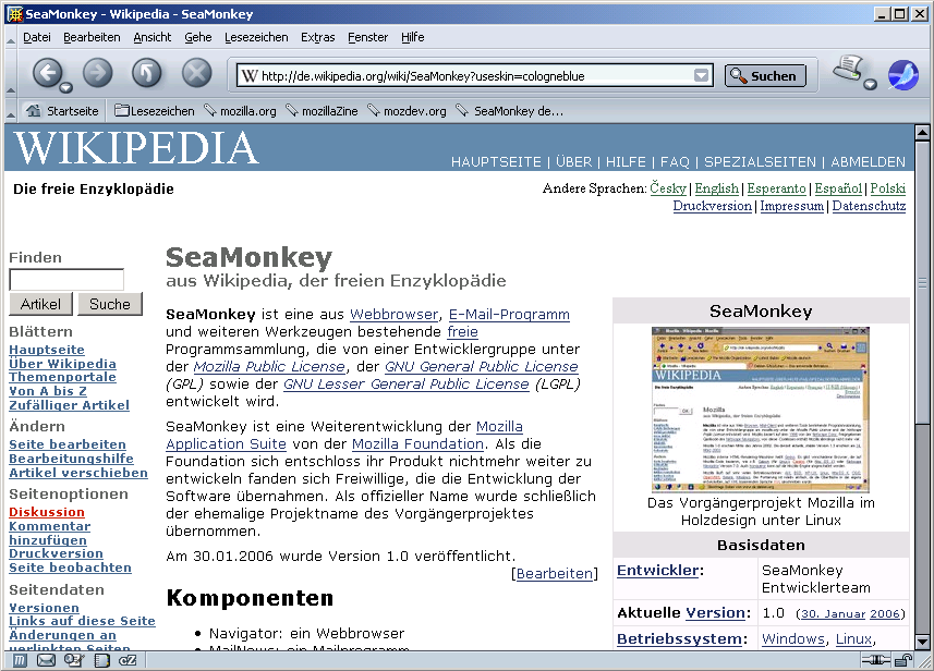 SeaMonkey Browser, Version 1.0, screenshot, Modern skin, Windows 2000